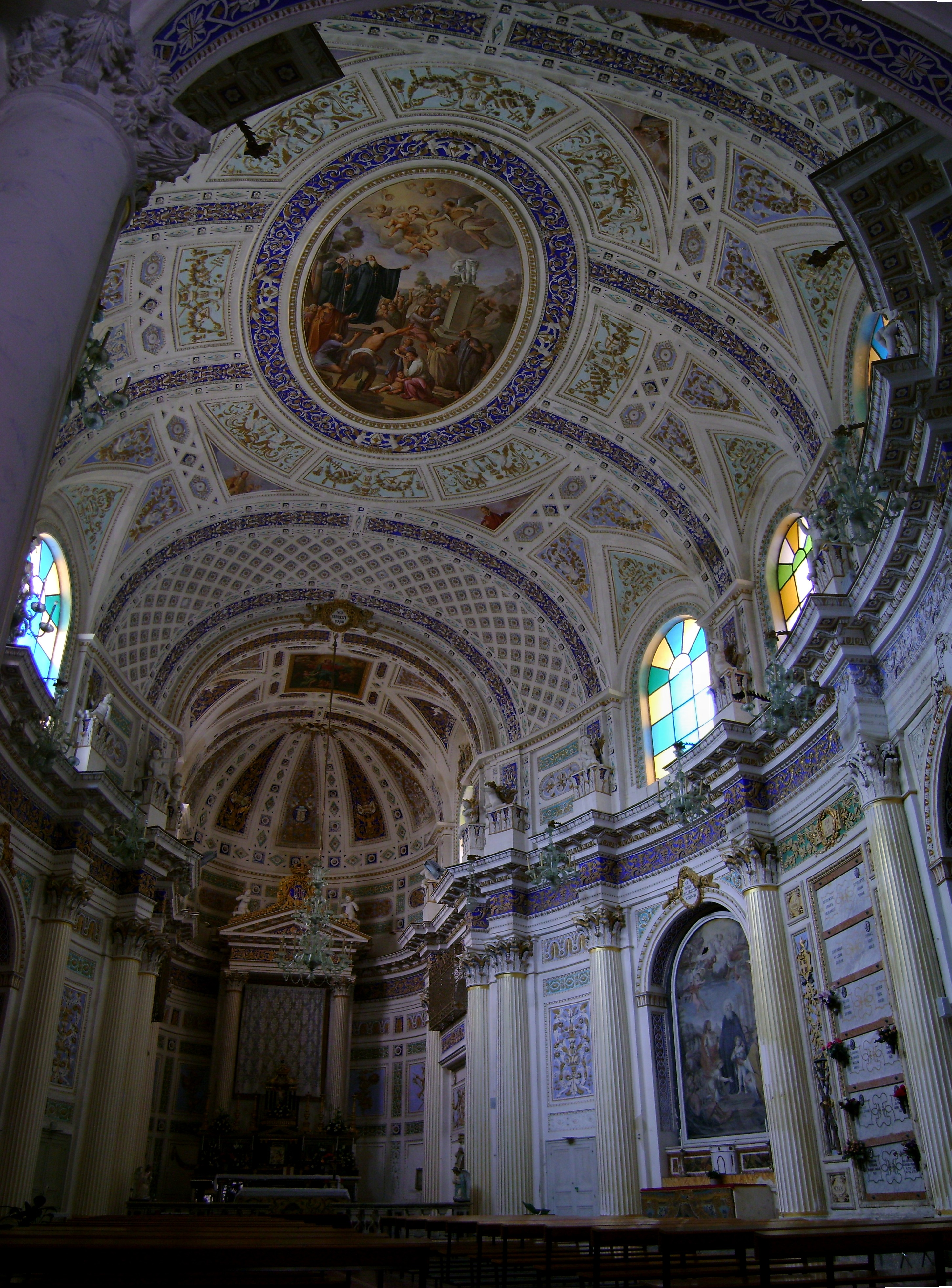 The church of San Giovanni Evangelista, Scicli, province of Ragusa, Sicily